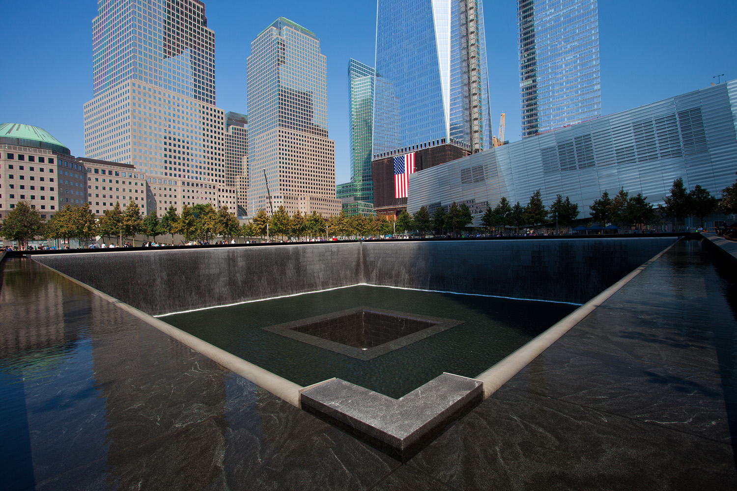 The National September 11 Memorial in New York is a tribute of remembrance and honor to the nearly 3,000 people killed in the terror attacks of September 11, 2001 at the World Trade Center site, near Shanksville, Pa., and at the Pentagon, as well as the six people killed in the World Trade Center bombing in February 1993.